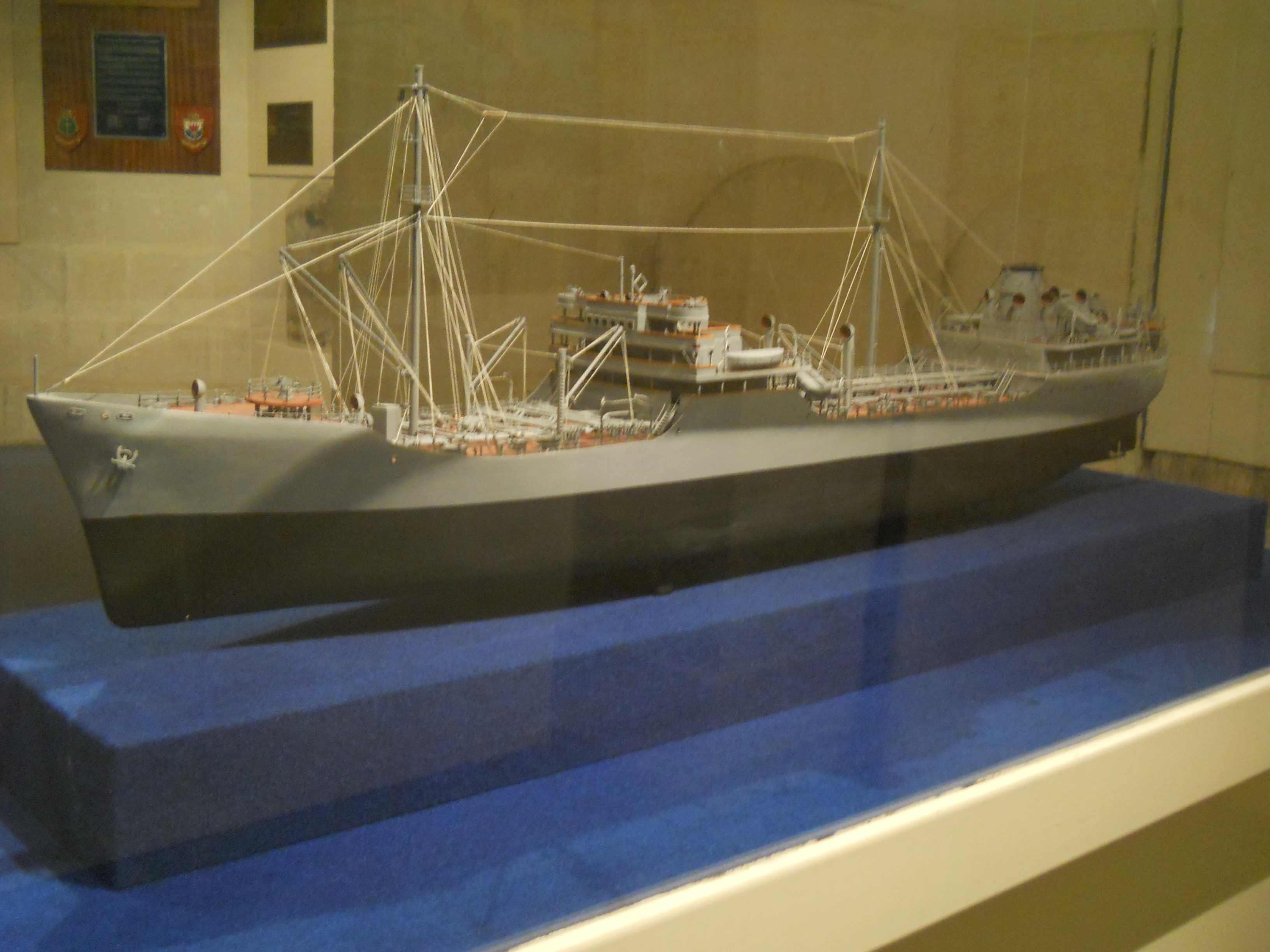 Model of the oil tanker Ohio in the Maritime Museum of Malta